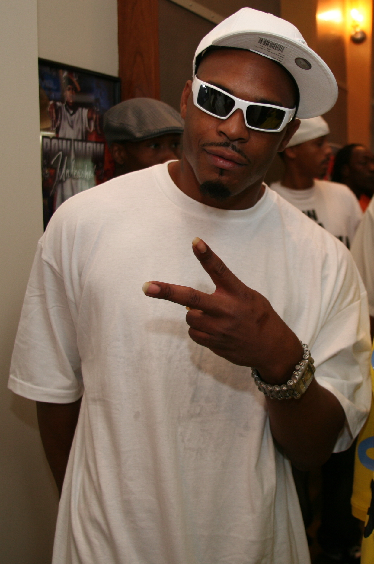 Fabo and Lil Jon at an exclusive preview of the video game Halo 3.